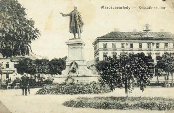 Sculpture of Kossuth Lajos (Hungarian: Kossuth Lajos szobor)